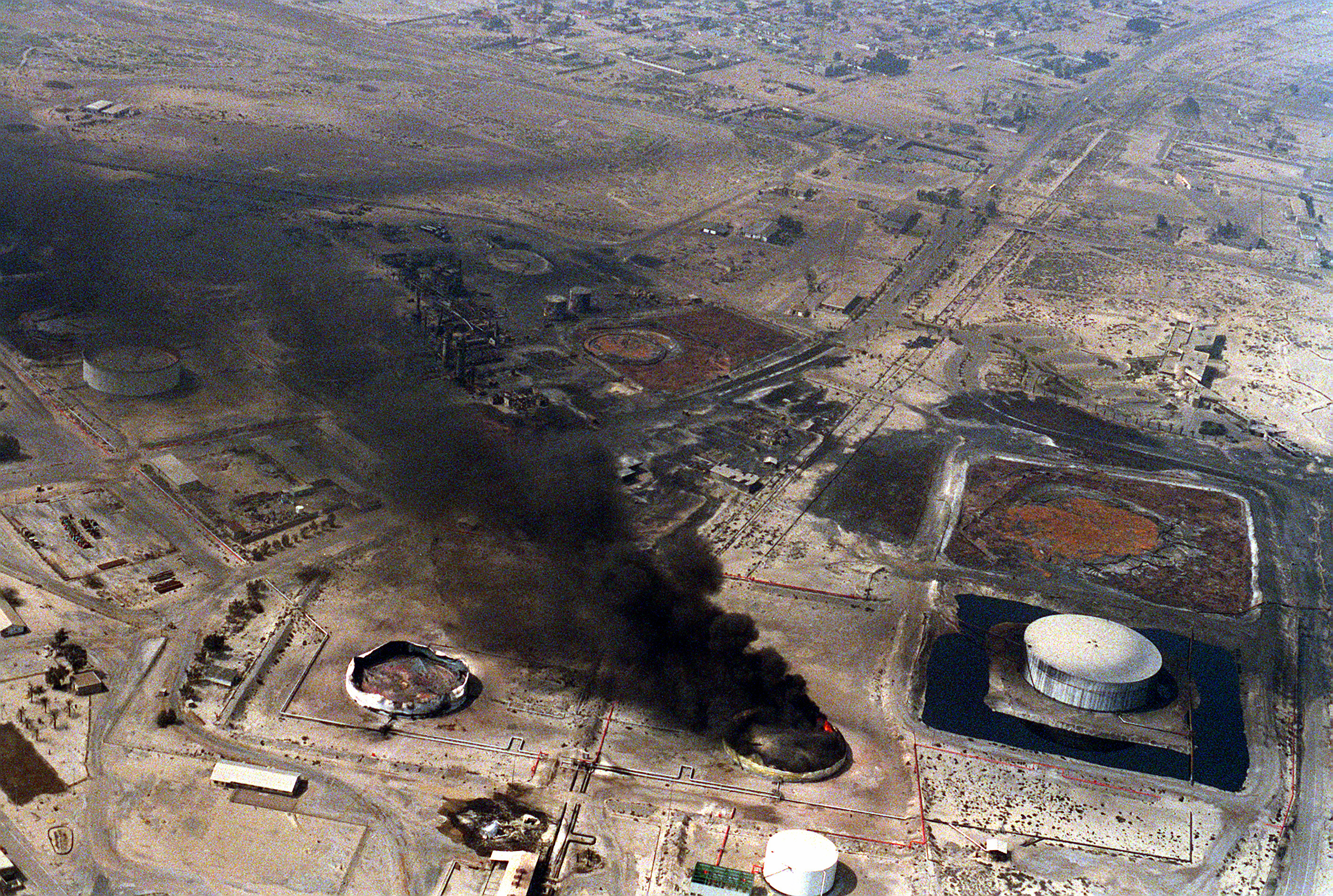 An oil storage tank at a refinery that was attacked by coalition aircraft during Operation Desert Storm continues to burn days after the air strike. The refinery is located approximately seven miles west of the Kuwaiti border.